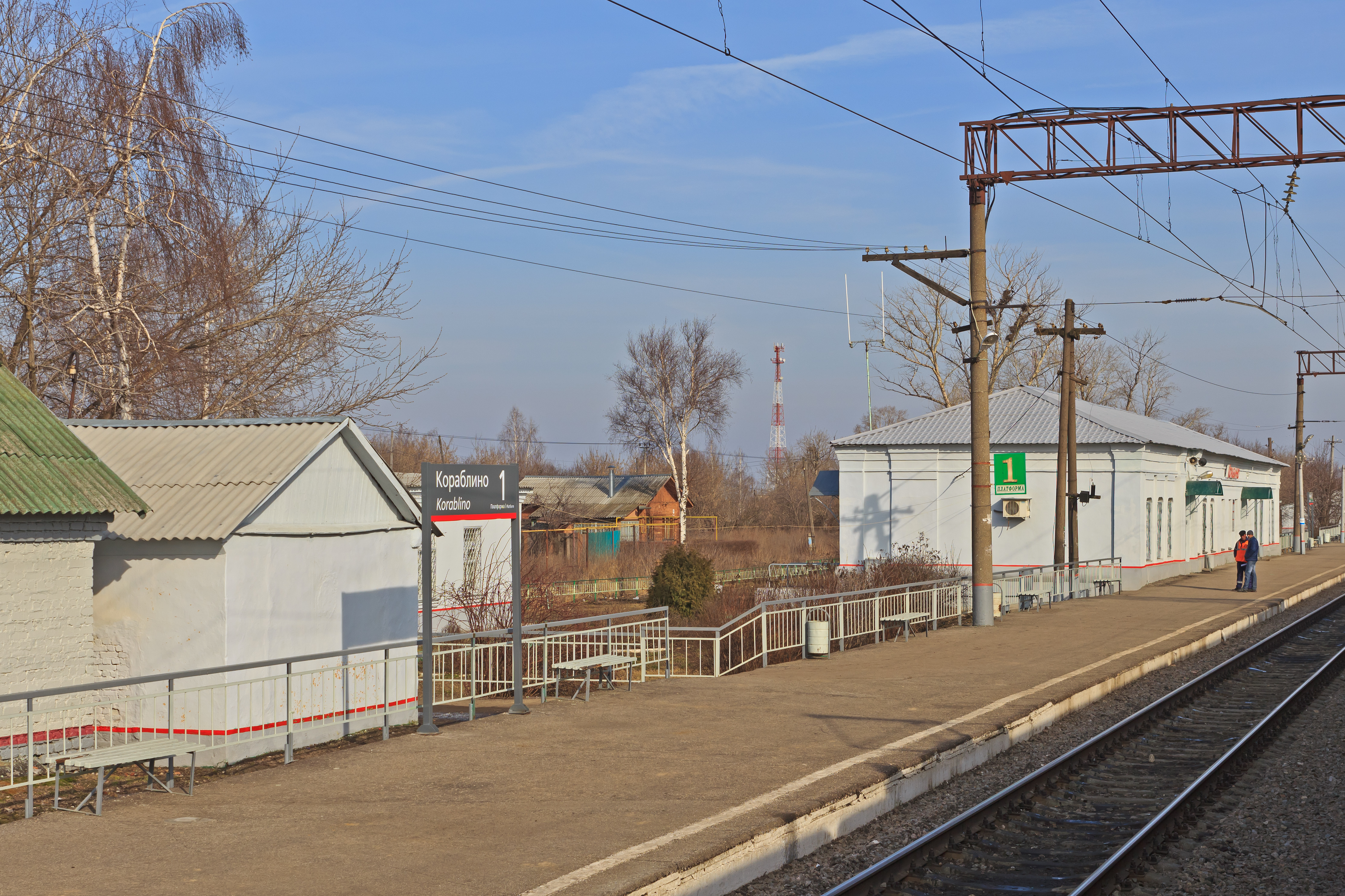 Railway station in Korablino, Ryazan Oblast, Russia.